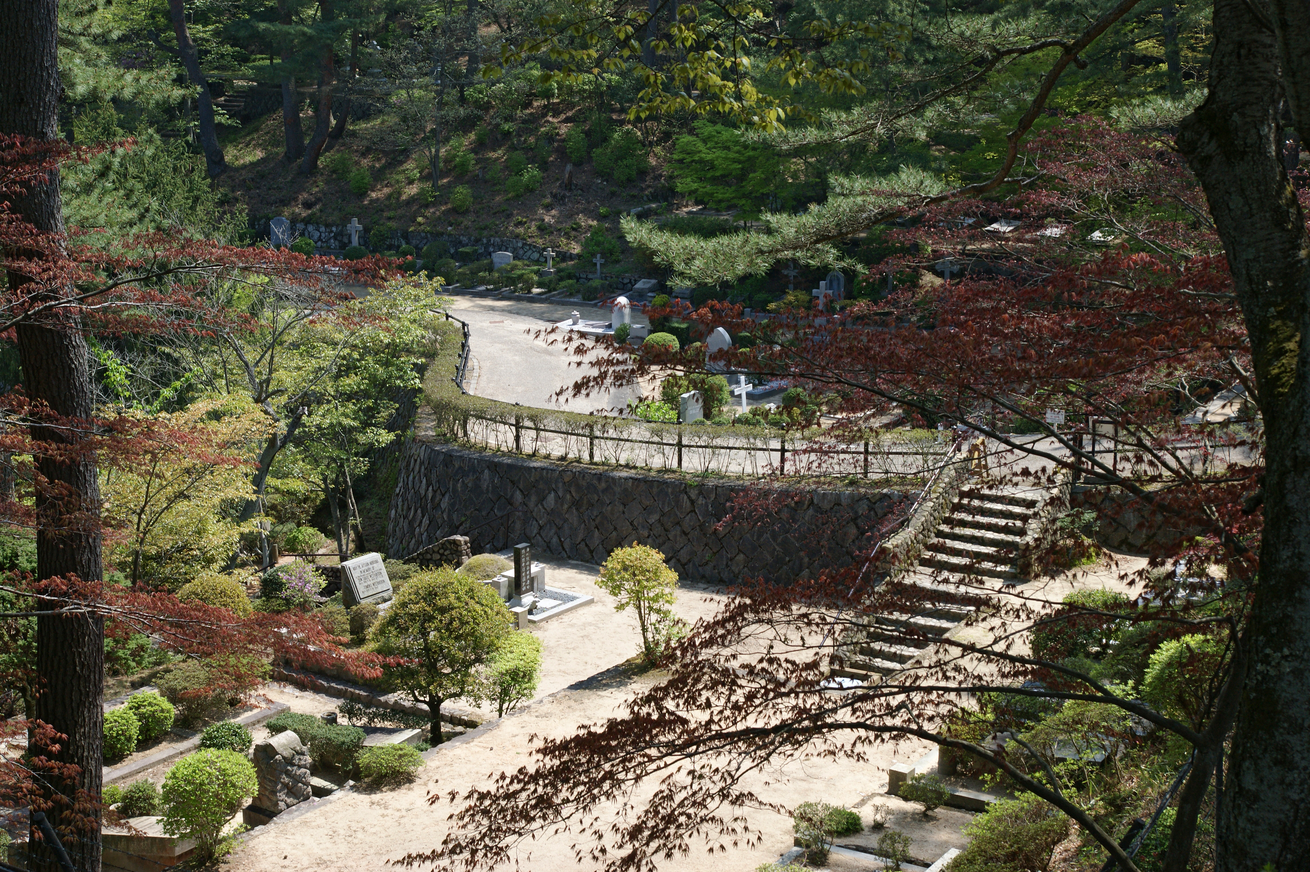 Kobe Municipal Foreign Cemetery in Kobe, Hyogo prefecture, Japan